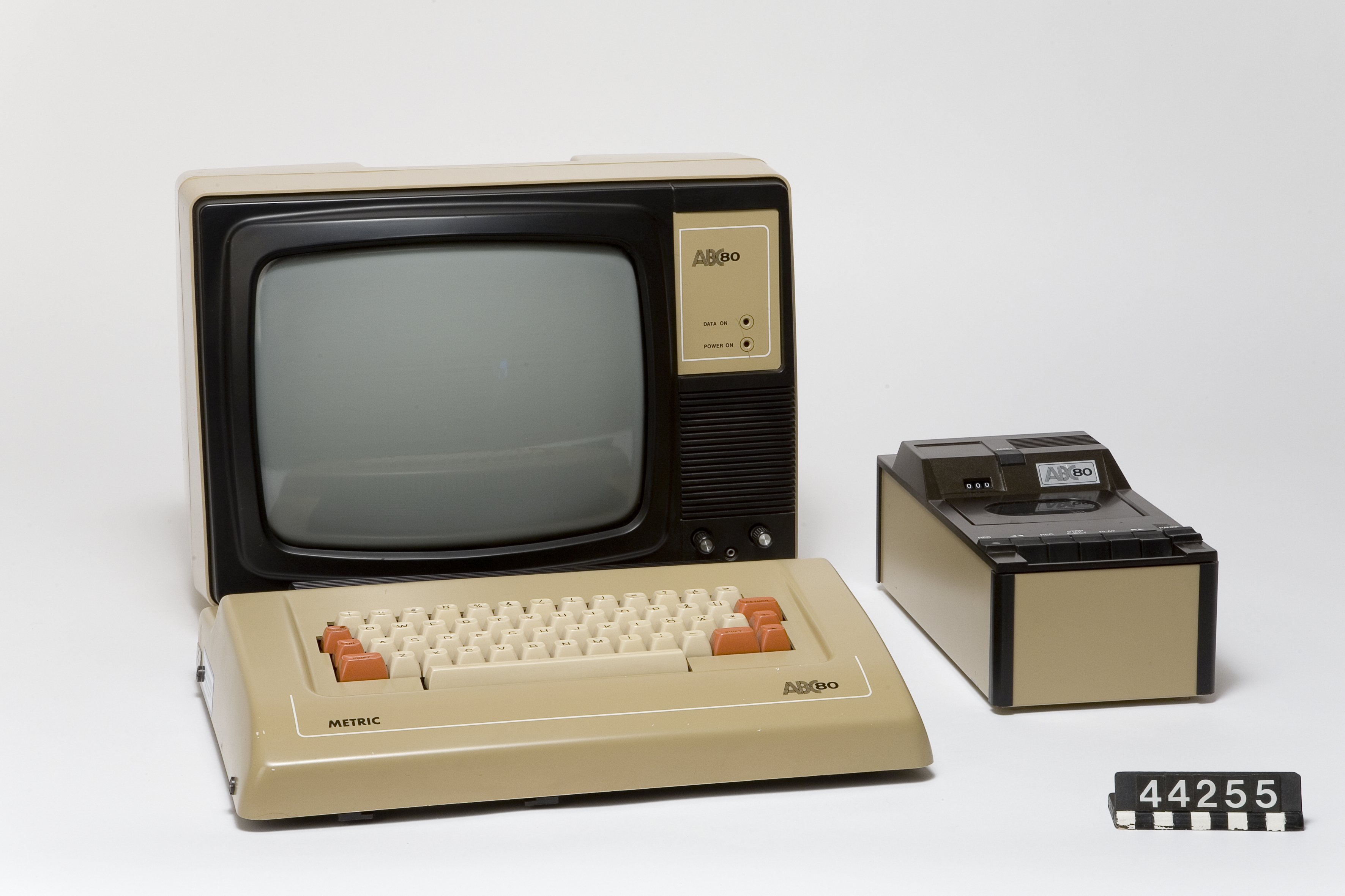 The Luxor ABC 80 was introduced in 1978 as the first of a family of computers from the Swedish firm Luxor